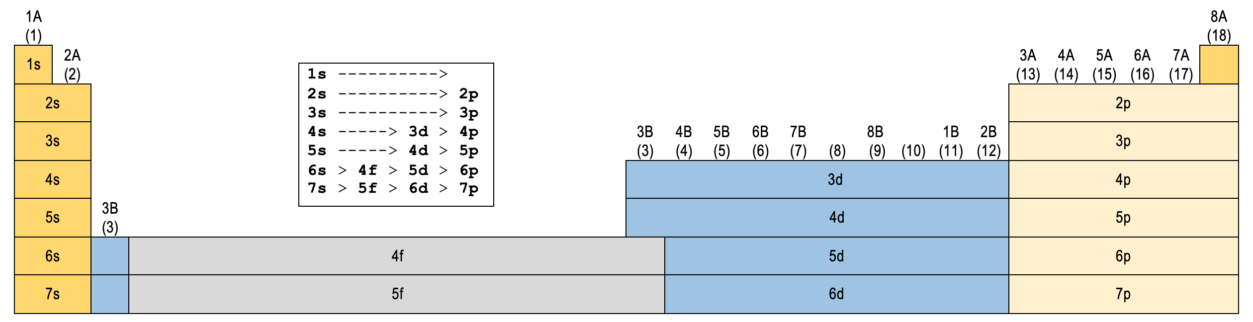 Based on the table appearing in Silberberg MS 2006, Chemistry: The molecular nature of matter and change, 4th ed., McGraw-Hill, Boston, p. 303